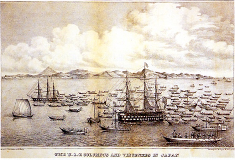 Colombus And Vincennes In Japan